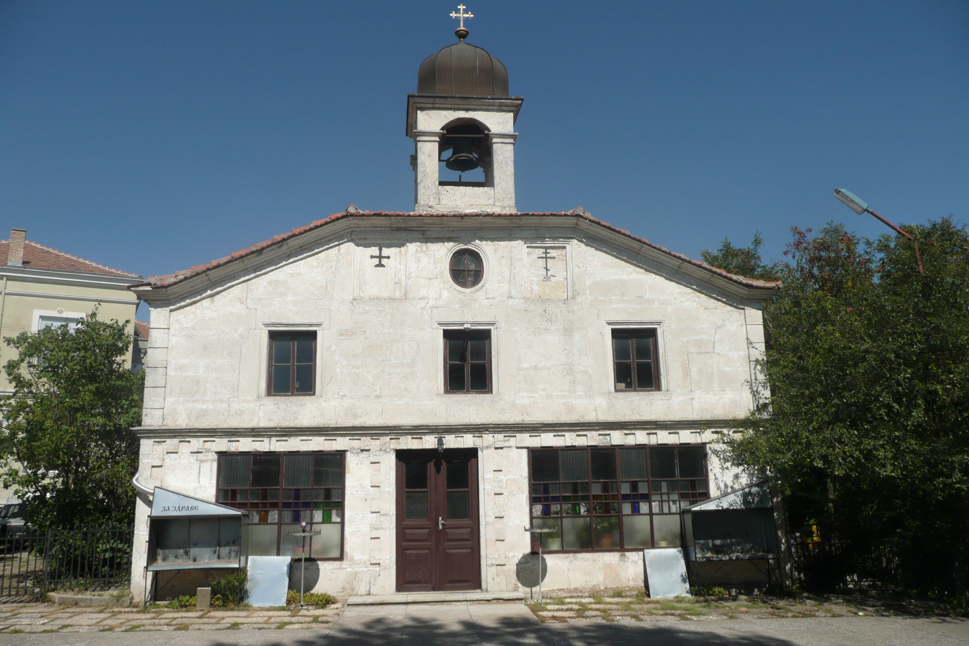 The Dormition of Theotokos church in Kavarna (1860)